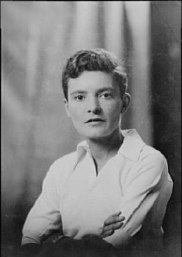 Arnold Genthe (1869-1942)/LOC agc.7a10921. Alice DeLamar, 1927